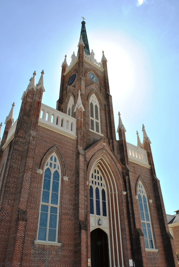 Natchez On-Top-of-the-Hill Historic District, U.S. Routes 61, 84, and 98 Natchez